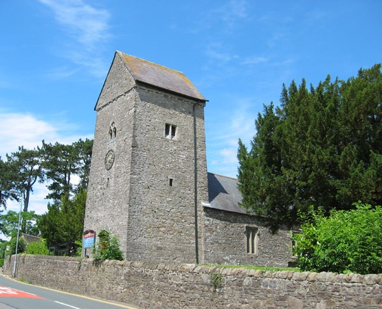 Lisvane Church Churches in this style are scattered across South Wales